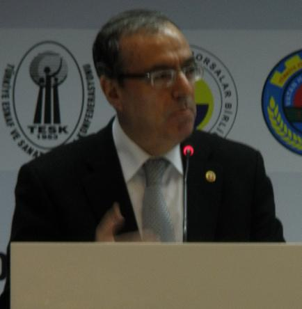 Atilla Kart